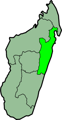 Toamasina, province of Madagascar